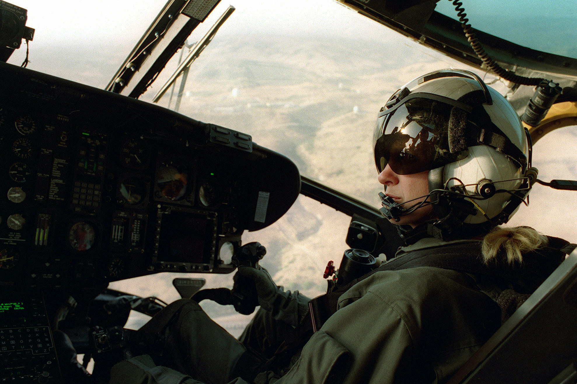 ID: DNSD0305429 970623N3149V004 Captain Sarah Deal, the first female Marine Corps helicopter pilot, flies a CH-53 Sea Stallion helicopter from HMH 466, MCAS Tustin, California, over Camp Pendleton while training during Exercise KERNEL BLITZ '97. KERNEL BLITZ is taking place off the coast of Southern California and Camp Pendleton to train Navy and Marine Corps personnel in amphibious operations. Location: MARINE CORPS BASE CAMP PENDLETON, CALIFORNIA (CA) UNITED STATES OF AMERICA (USA)